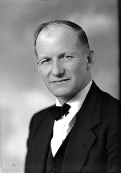 Representative Clyde V. Tisdale, 1937